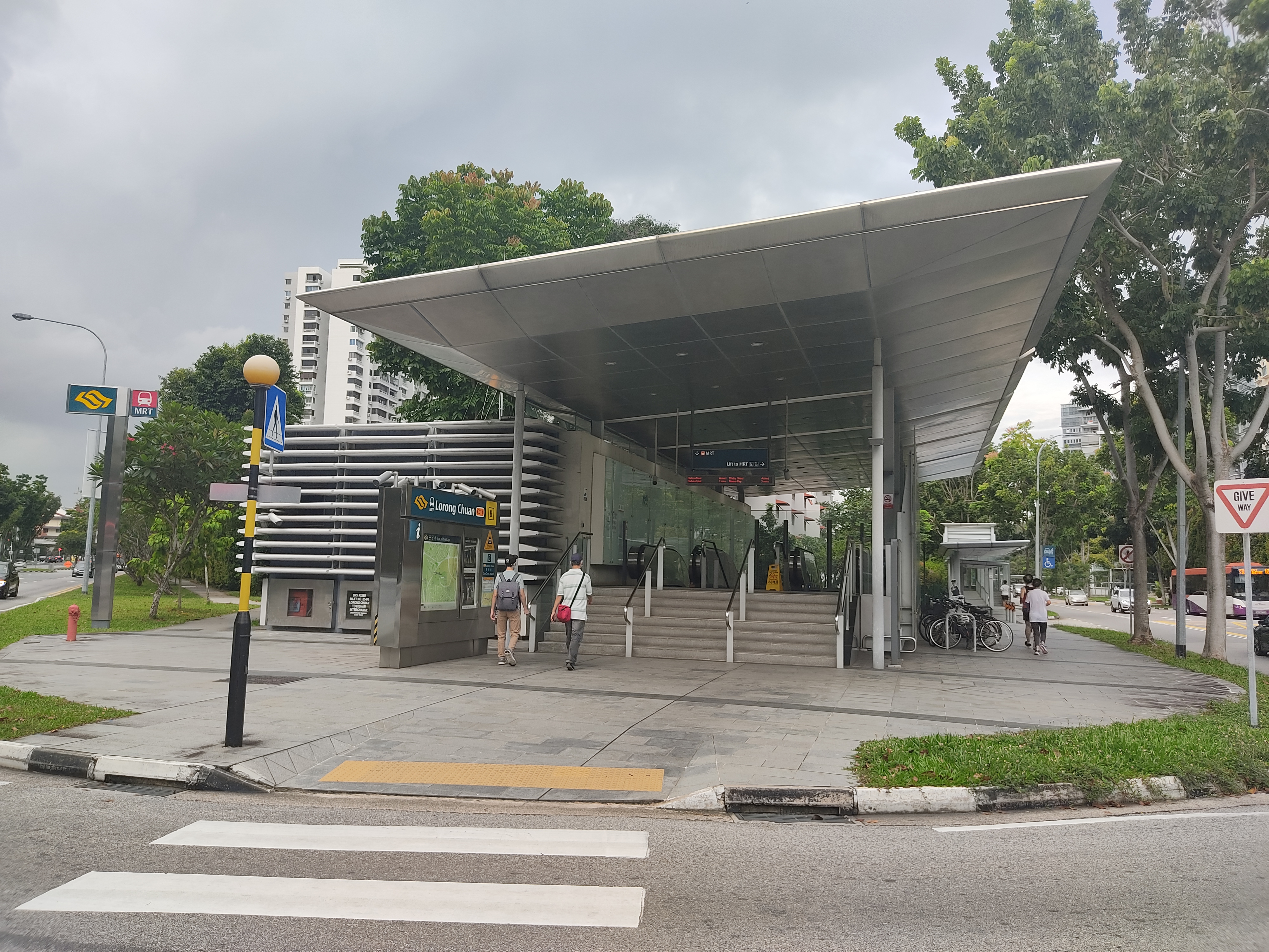 Exit B of Lorong Chuan MRT